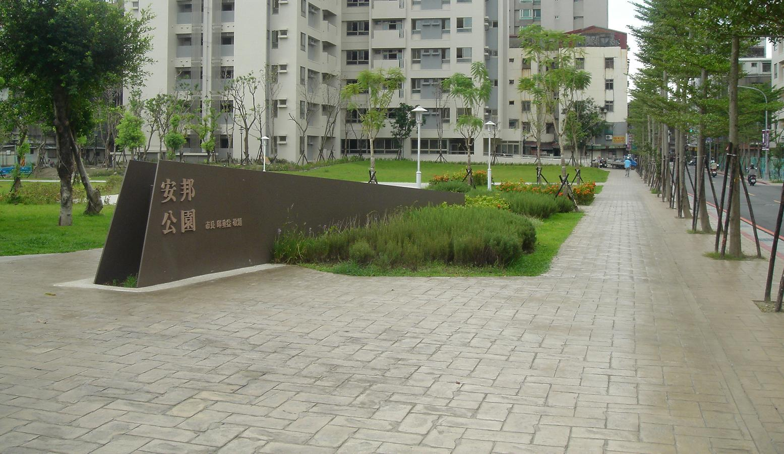 Ampang Park